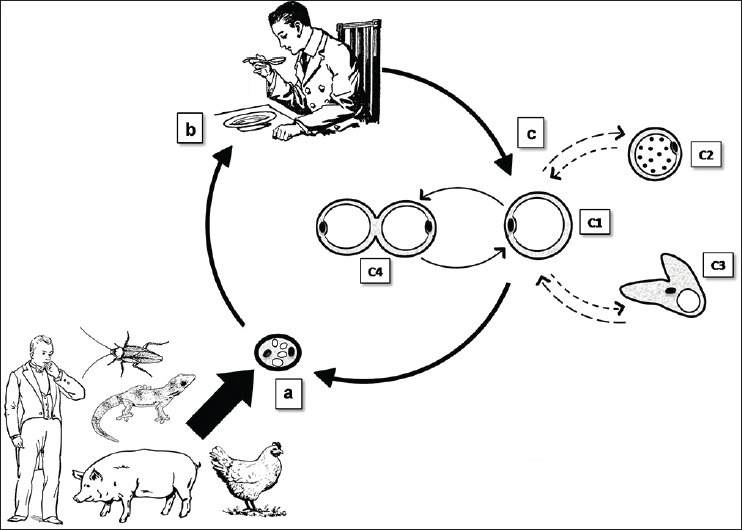 Life cycle of Blastocystis